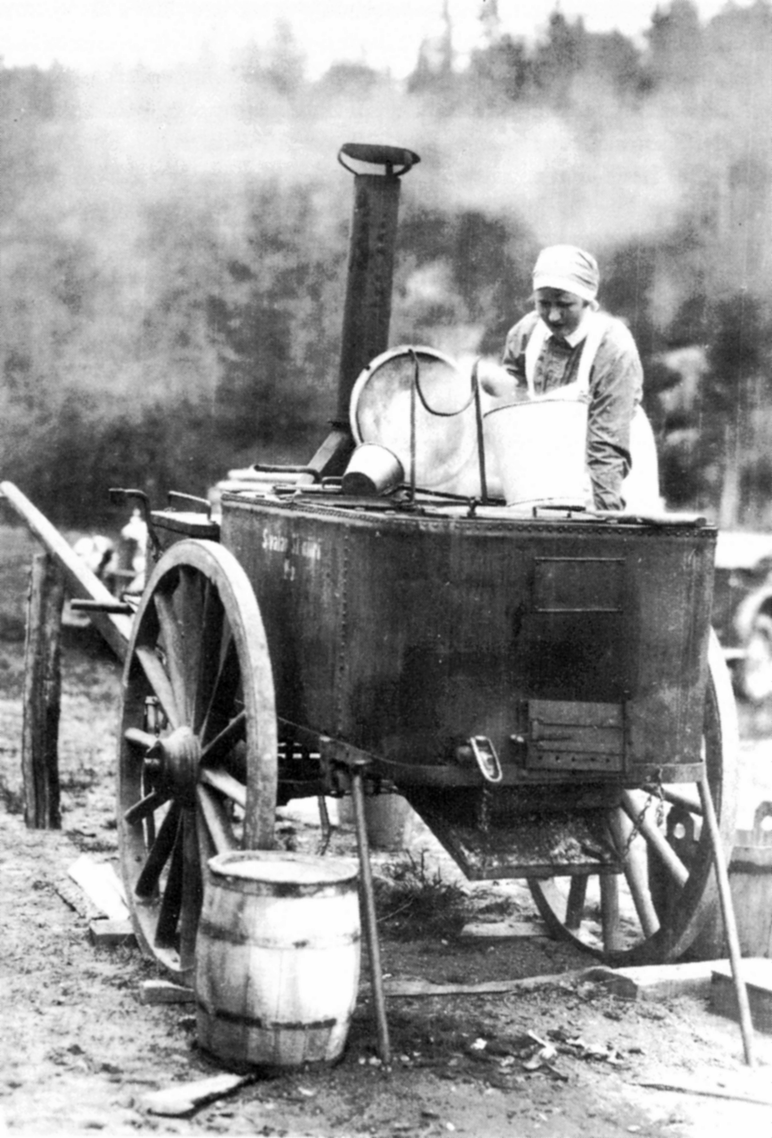 Member of Lotta Svärd at a field kitchen during a White Guard maneuver in Sordavala in 1924.